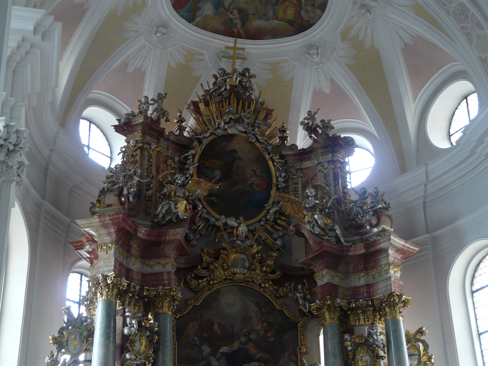 Kloster Heilig Kreuz, Donauwörth, Germany - Decorations above the main altar